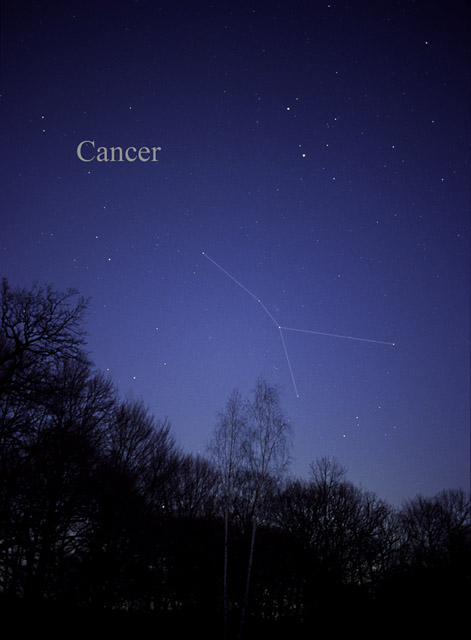 Photography of the constellation Cancer, the crab